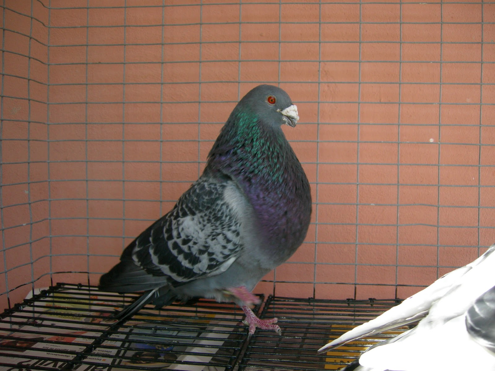 pigeon